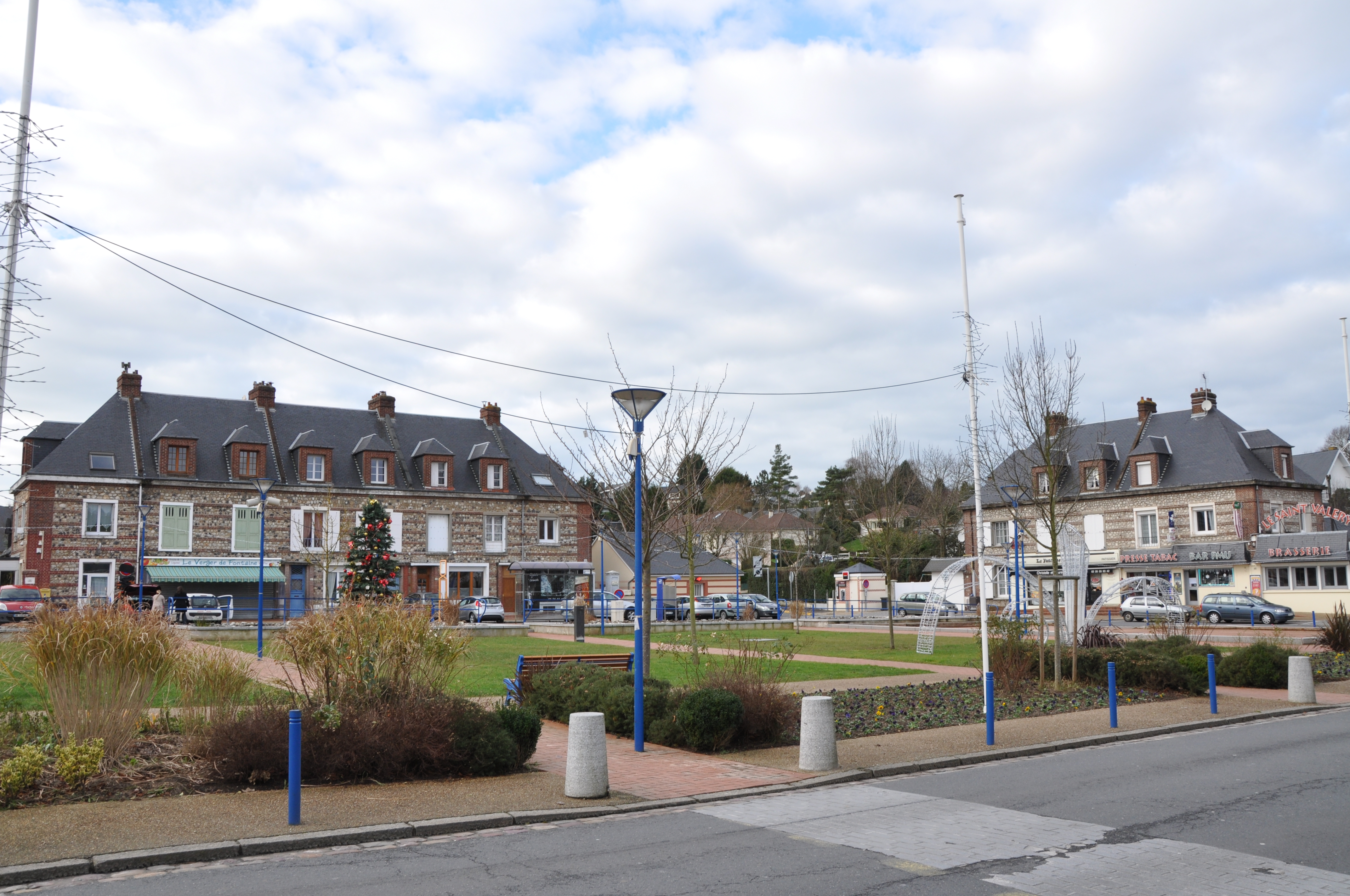 Village of Fontaine-la-Mallet near Le Havre (France, Normandy) : the square.